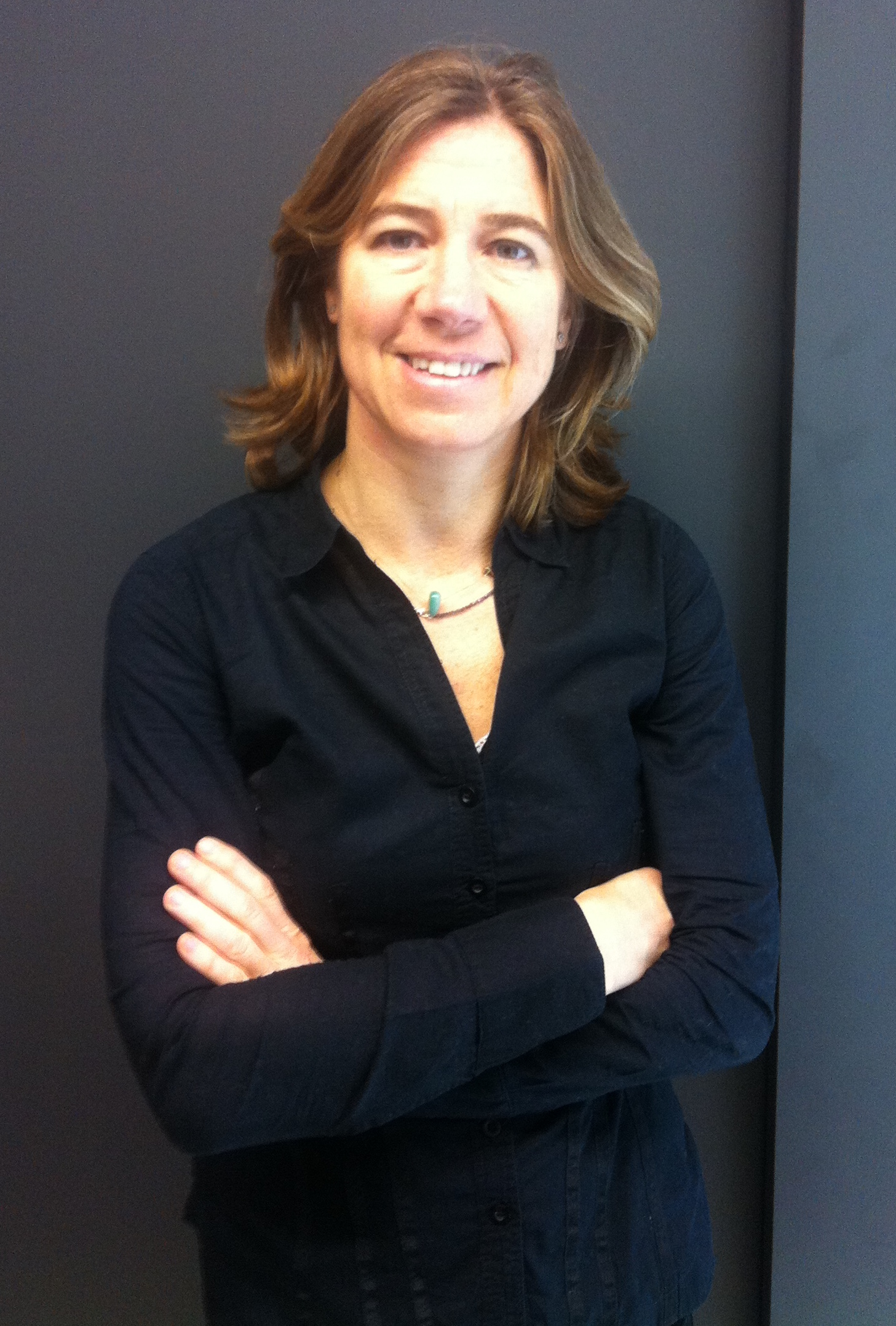 Ada Parellada